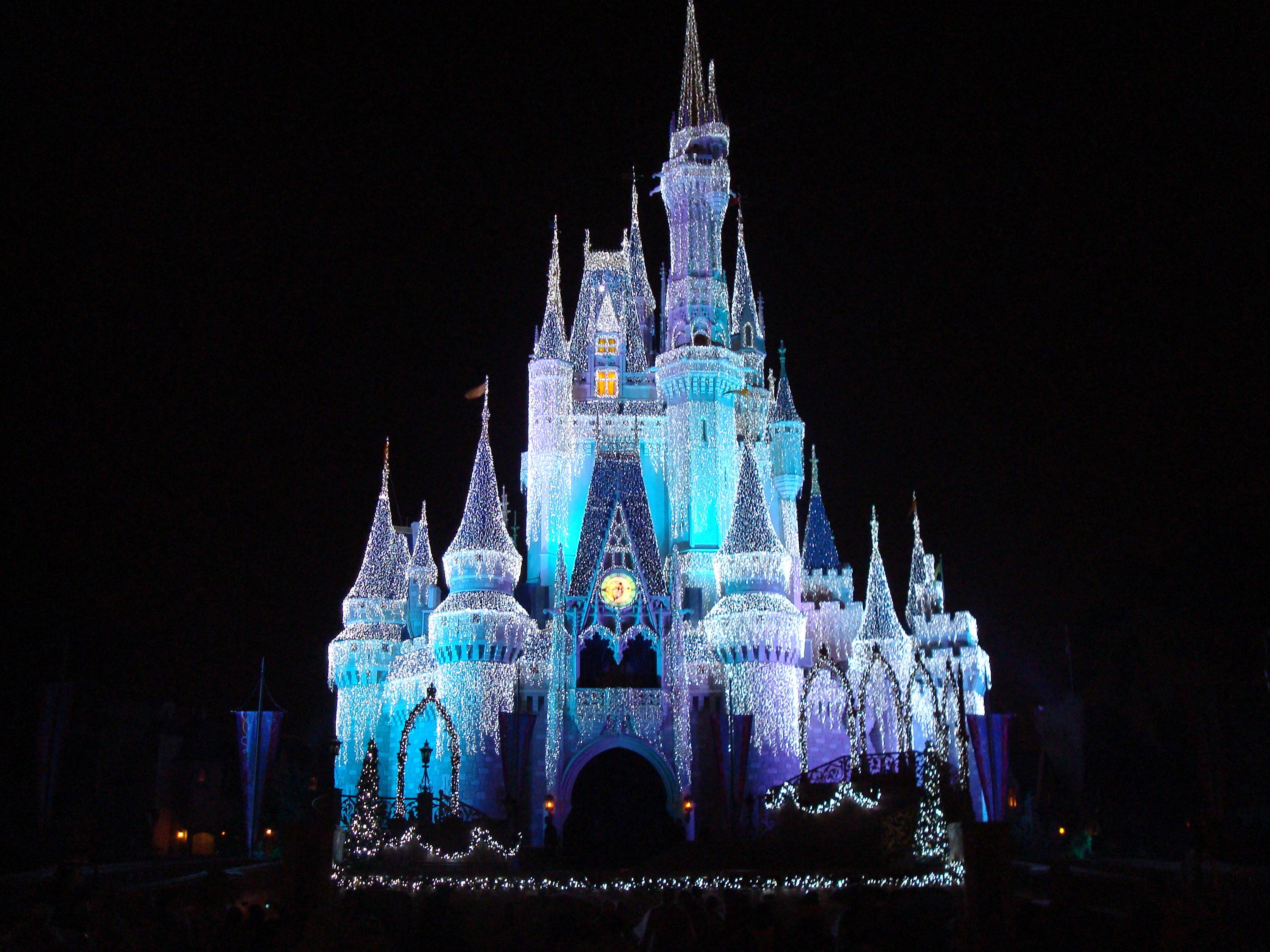 Disney Orlando castle at night